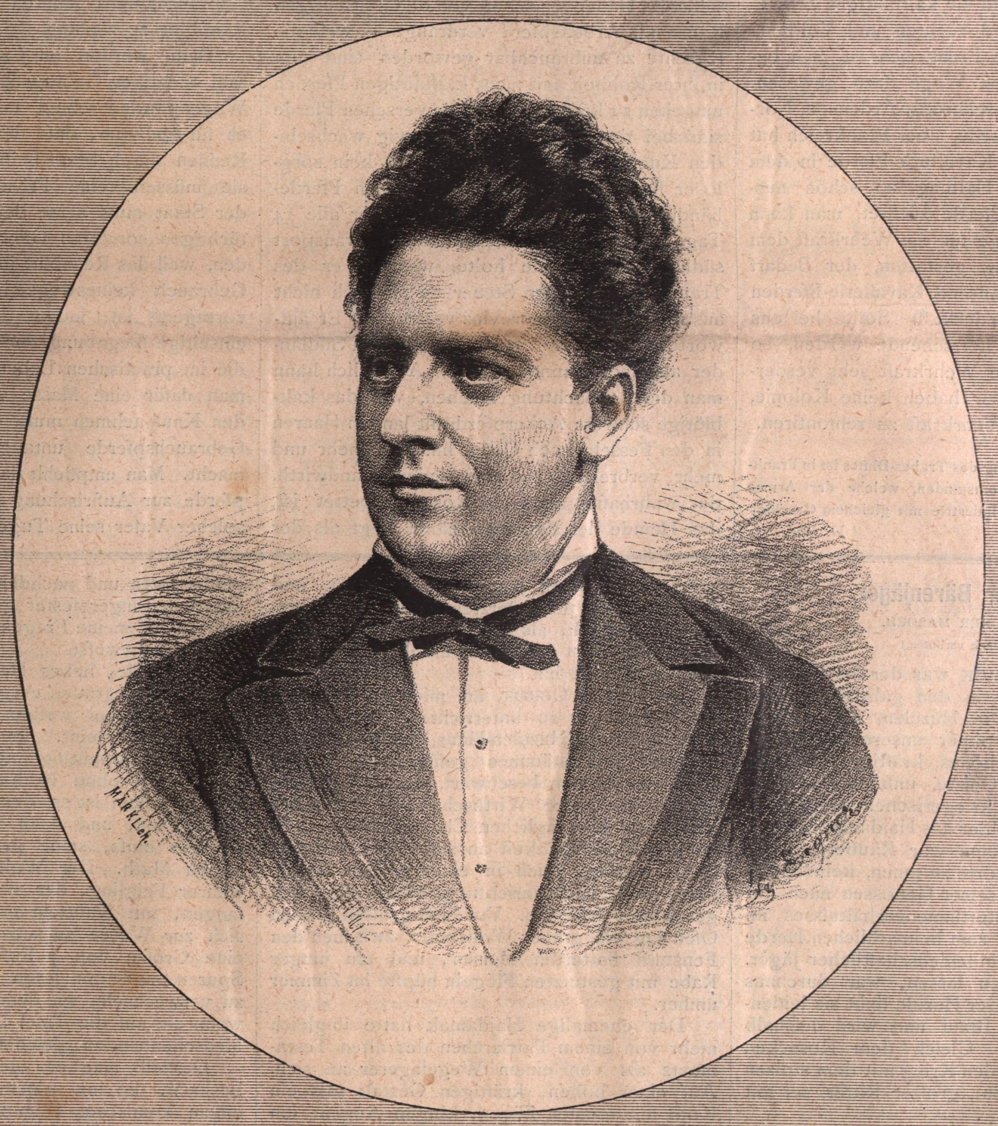 Portrait of Richard Kahle (1842-1916), German actor.